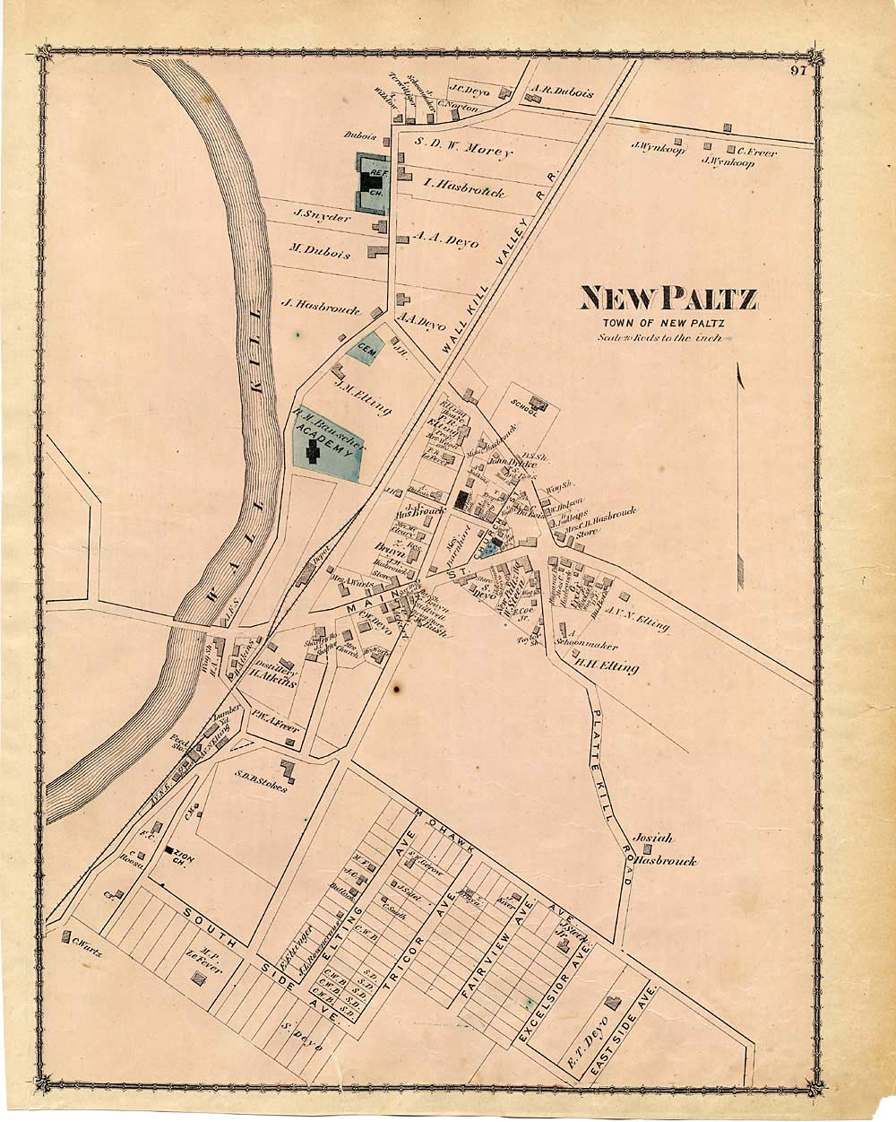 Scanned page of an atlas of Ulster County, New York prepared by F. W. Beers and first published in 1875.